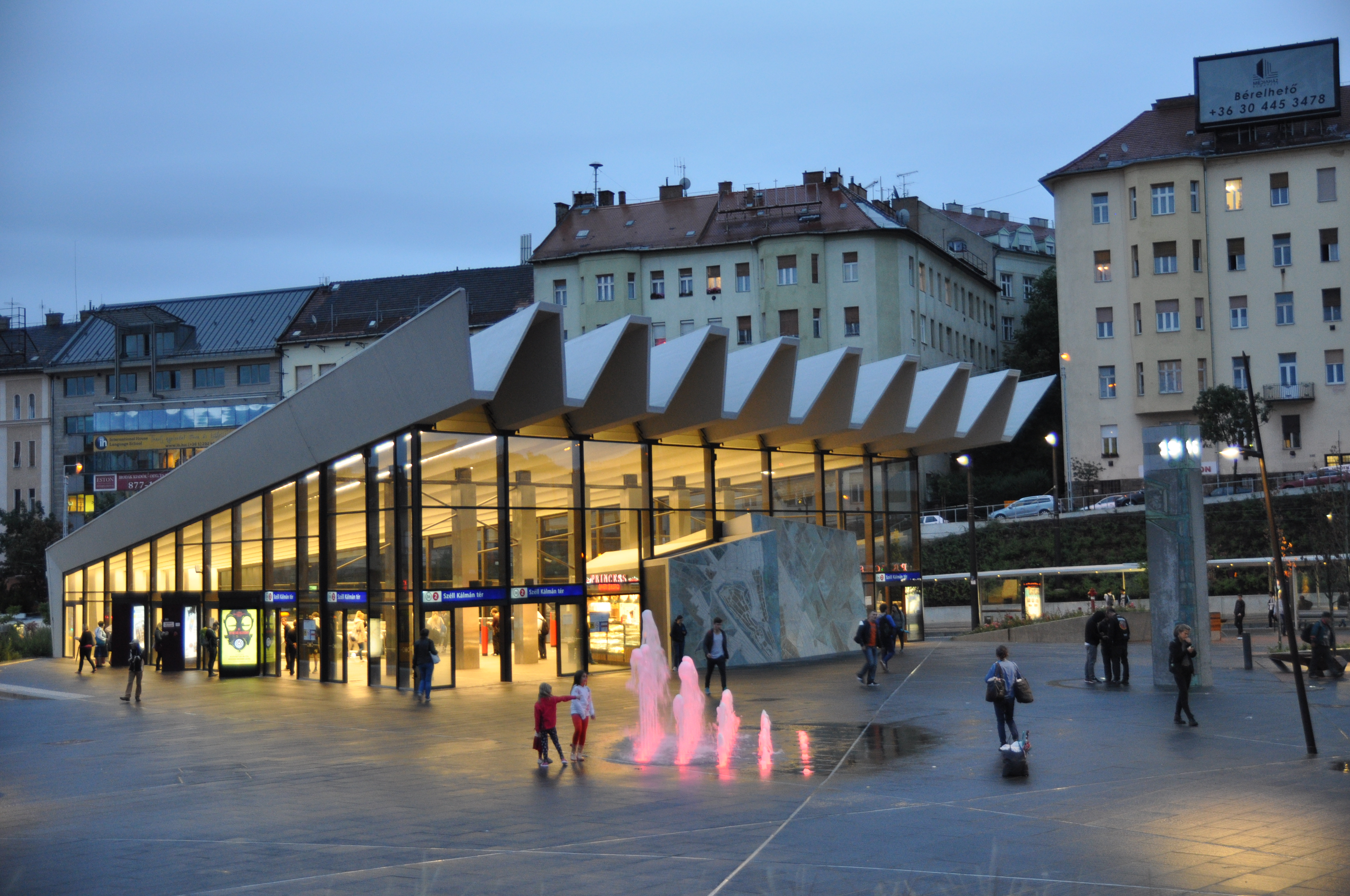 Budapest, Széll Kálmán tér